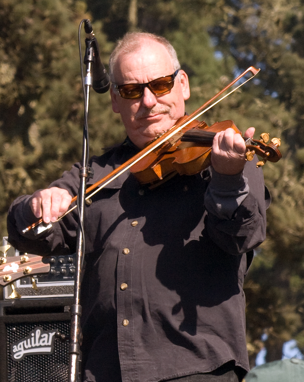 Gary Scruggs and Hoot Hester at Hardly Strictly Bluegrass 2009